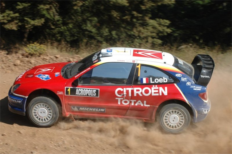 Sébastien Loeb driving a Citroën Xsara WRC at the 2005 Acropolis Rally.